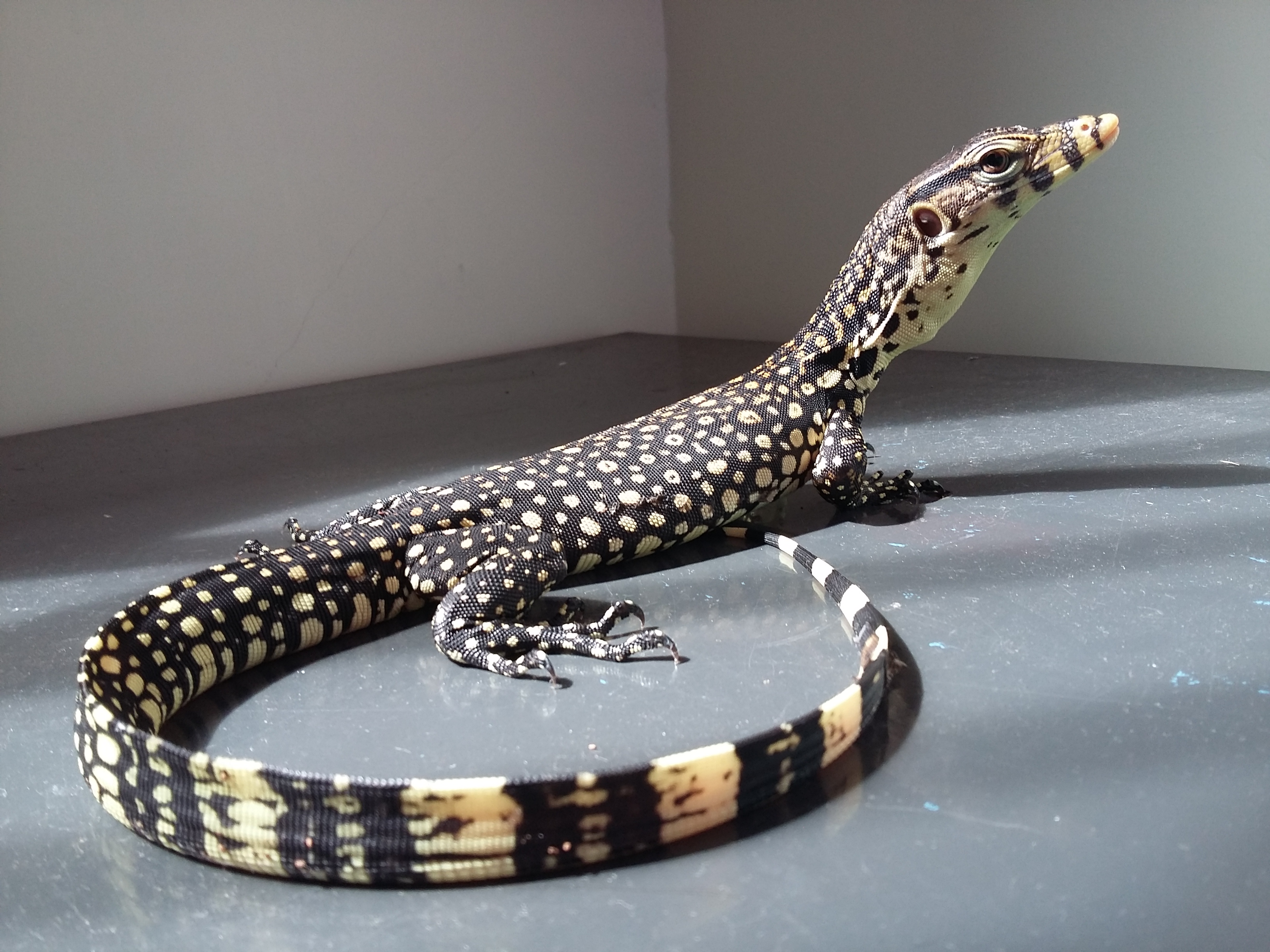 This picture was taken on january 26th, 2017